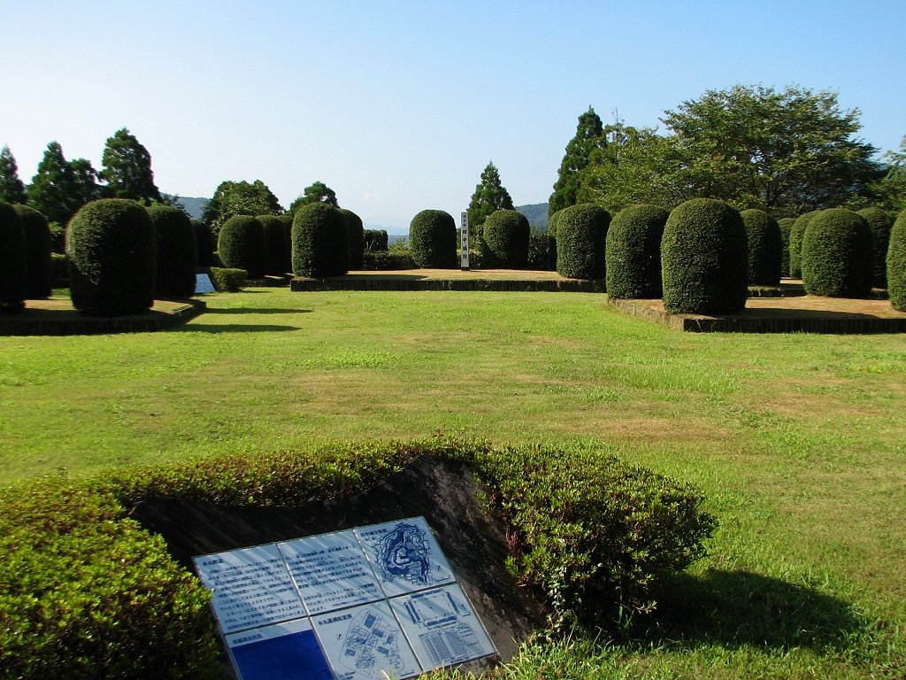 Tanaka Castle(田中城(Tanaka Jyou)) in Nagomi Town,Kumamoto,Japan.